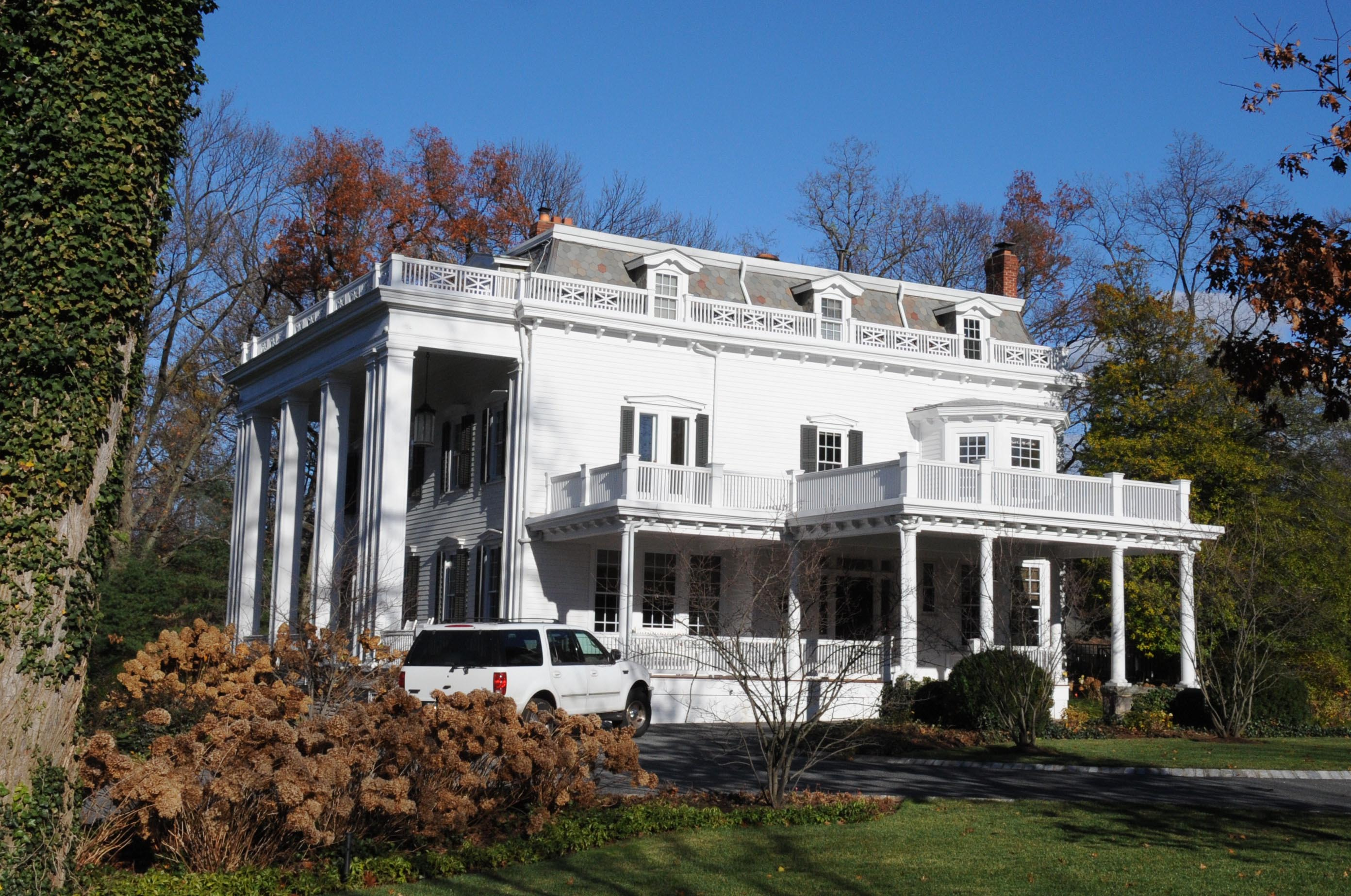 THE FAMOUS WOMAN’S RIGHTS ACTIVIST LIVED HERE FROM 1868 TO 1887 DURING HER MOST ACTIVE YEARS; HOUSE WAS BUILT IN 1846